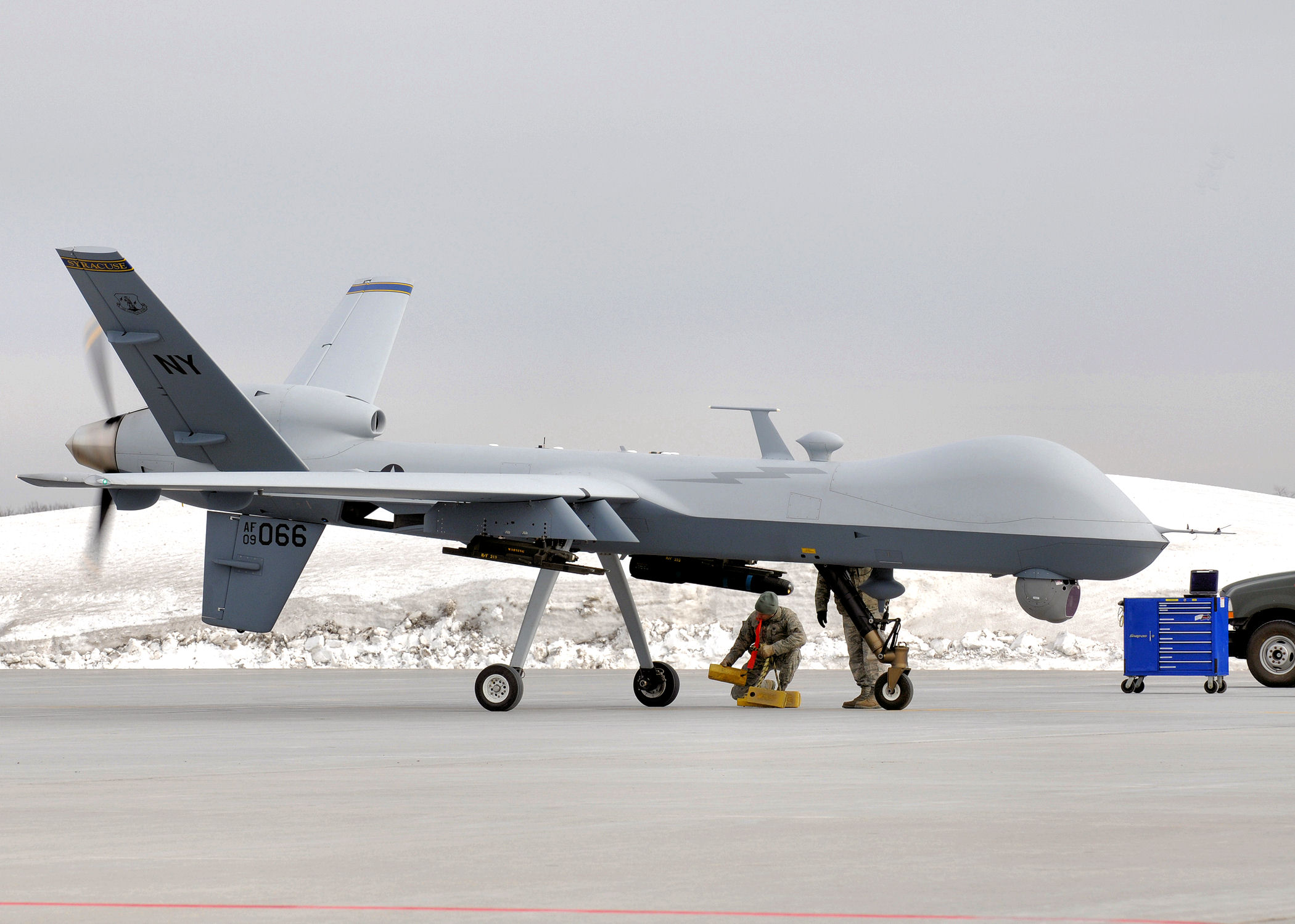 Members of the New York Air National Guard's 174th Fighter Wing Maintenance Group place chalks on a MQ-9 Reaper after it returned from a winter training mission at Wheeler Sack Army Airfield, Fort Drum, NY, on 14 Feb 2012. The 174th FW uses the airfield as a launch and recovery site. (photo by New York Air National Guard Tech. Sgt Ricky Best/RELEASED)